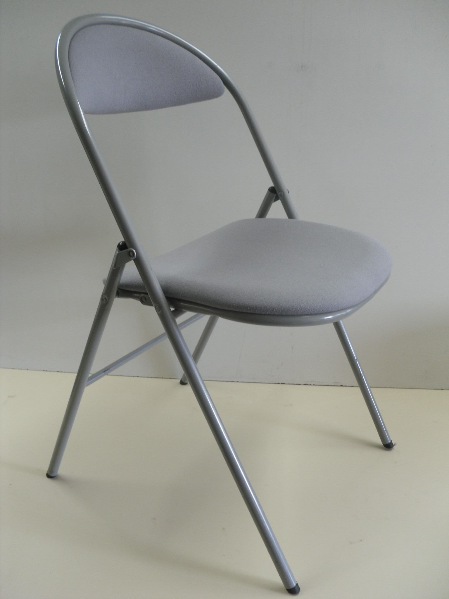 PliChaise by SOUVIGNET